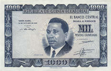 old banknote